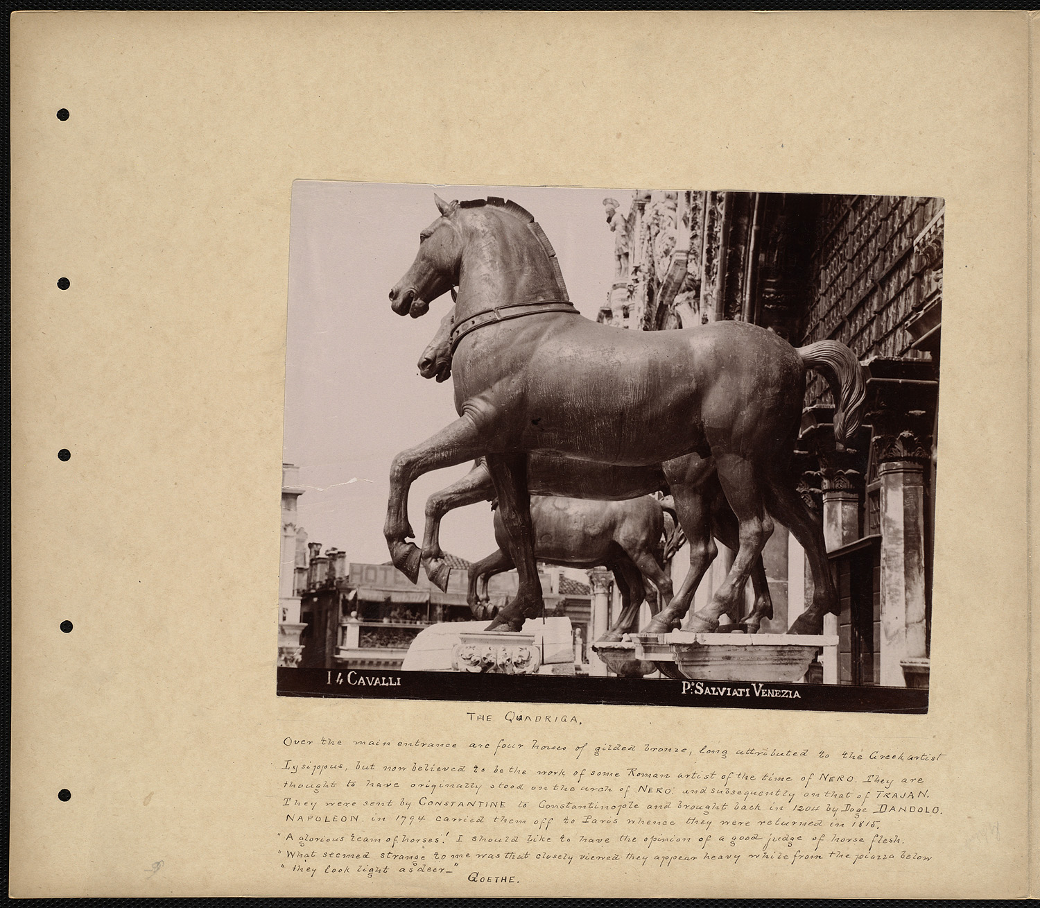 BPLDC no.: 08_04_000153 Page Title: The Quadriga Collection: William Vaughn Tupper Scrapbook Collection Album: Volume 44: Venice. Call no.: 4098B.104 v44 (p. 6) Creator: Tupper, William Vaughn Photographer: Salviati, Paolo Genre: Scrapbooks; Albumen prints Extent: 1 photographic print mounted on page : albumen ; page 33 x 39 cm. Description: Scrapbook page contains one photograph of the Quadriga in Venice, Italy. Annotated information describes the dispute over their creator and offers other historical information about the artifacts. Transcription: Over the main entrance are four horses of gilded bronze, long attributed to the Greek artist Lysippus, but now believed to be the work of some Roman artist of the time of Nero. They are thought to have originally stood on the arch of Nero: and subsequently on that of Trajan. They were sent by Constantine to Constantinople and brought back in 1204 by Doge Dandolo. Napoleon in 1794 carried them off to Paris whence they were returned in 1815. "A glorious team of horses! I should like to have the opinion of a good judge of horse flesh. What seemed strange to me was that closely viewed they appear heavy while from the piazza below they look light as deer." -Goethe. Notes: Page description supplied by cataloger, derived from captions and/or annotated information.; Caption on image: I 4 Cavalli, Venezia BPL Department: Print Department Rights: No known restrictions. Flickr data on 2011-08-05: Camera: Sinar AG Sinarback 54 FW, Sinar m License: CC BY 2.0 User: Boston Public Library BPL